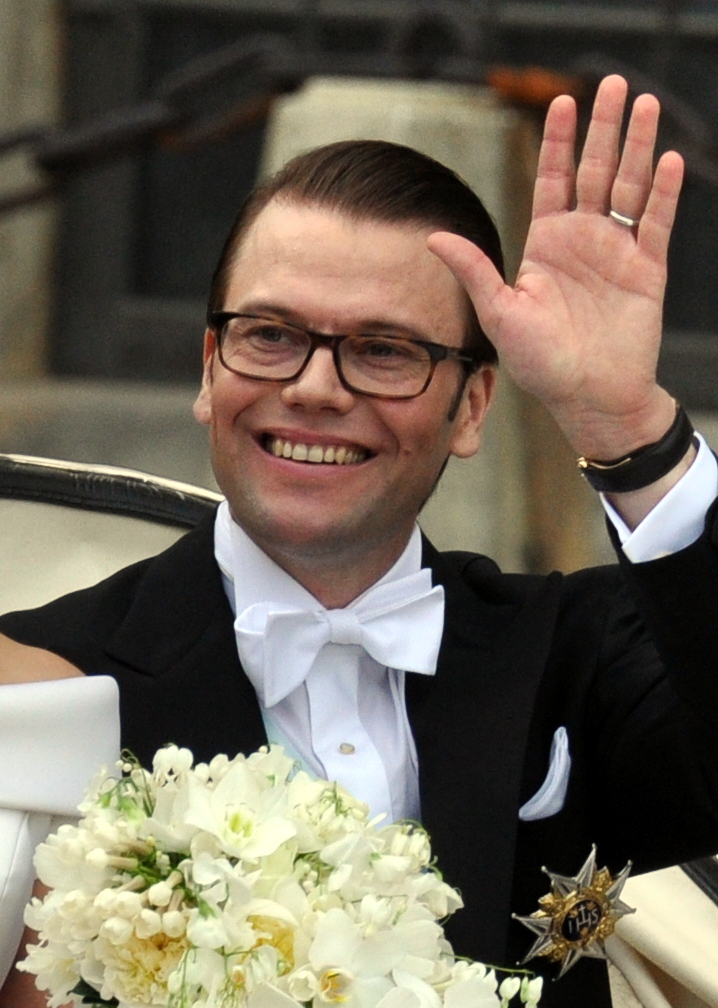 Wedding of Victoria, Crown Princess of Sweden, and Daniel Westling; Cortège at Slottsbacken